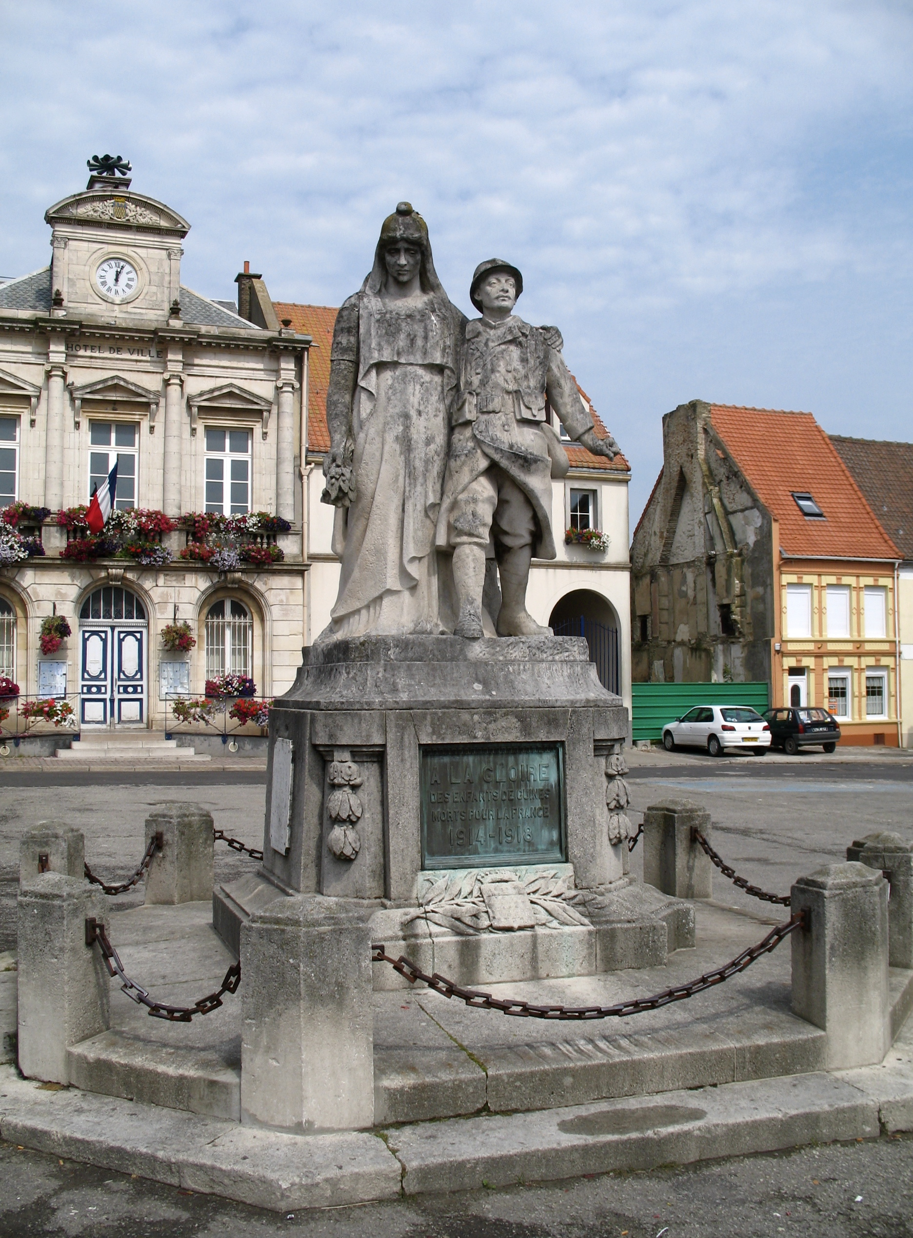 Guînes (Département du Pas-de-Calais, France): War Memorial